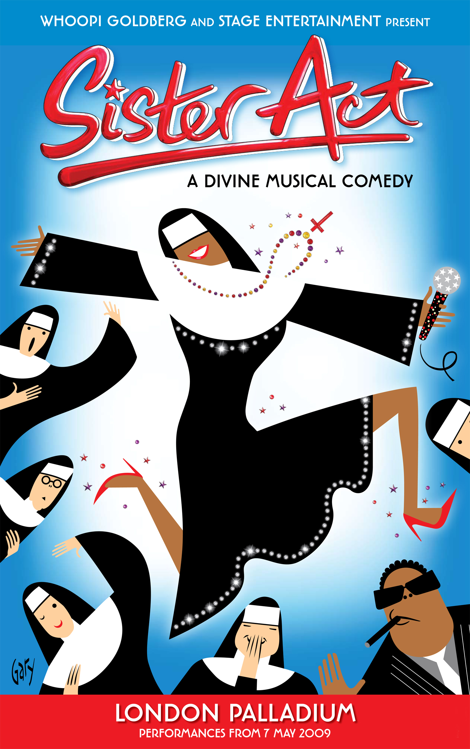 Theatrical poster for Sister Act the Musical at the London Palladium